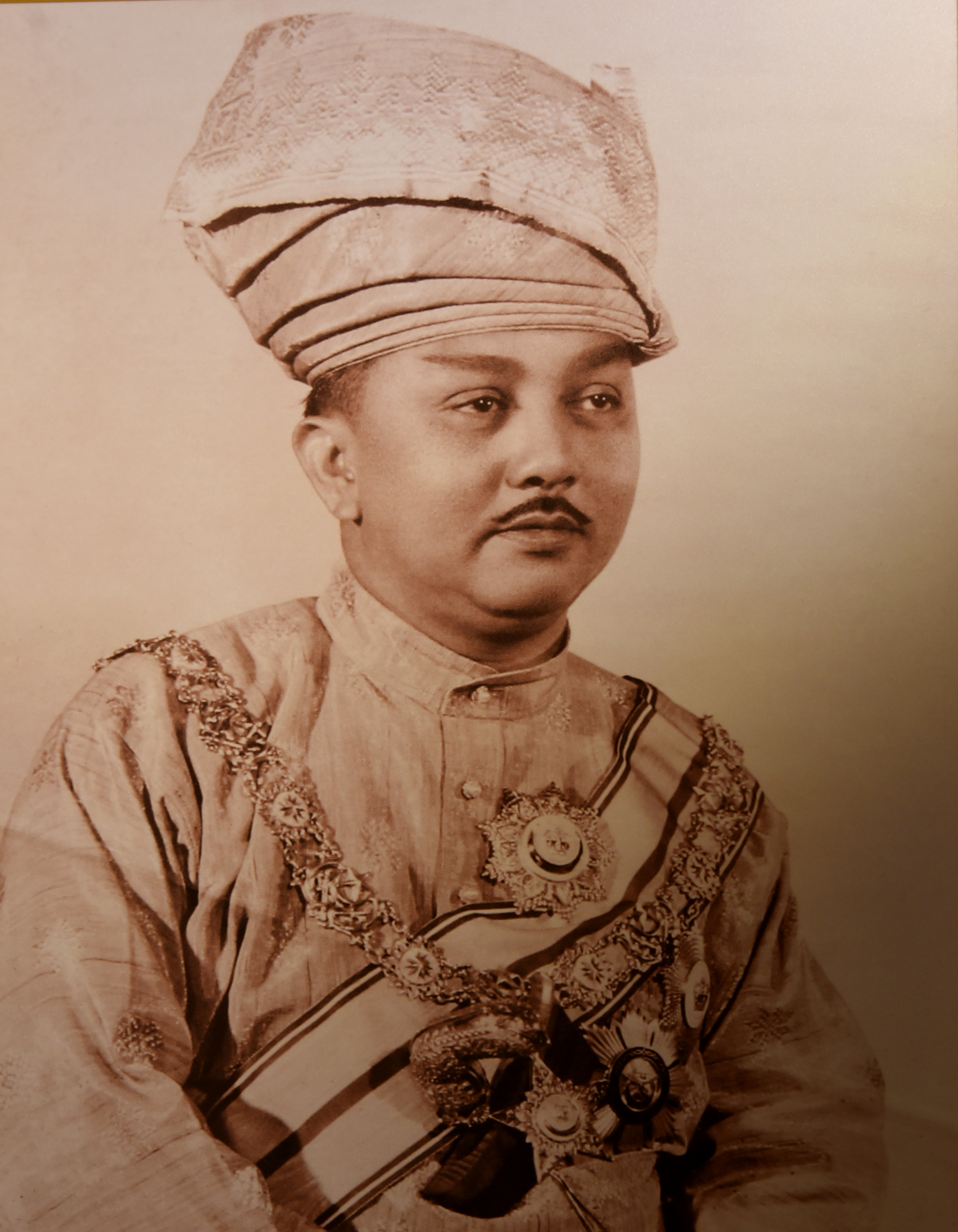 Tuanku Munawir Tuanku Abdul Rahman, Yang Di-Pertuan Besar Negeri Sembilan. The name of the photographer was not mentioned. The original image is © the Tuanku Ja'afar Royal Gallery, Seremban, Negeri Sembilan, Malaysia.